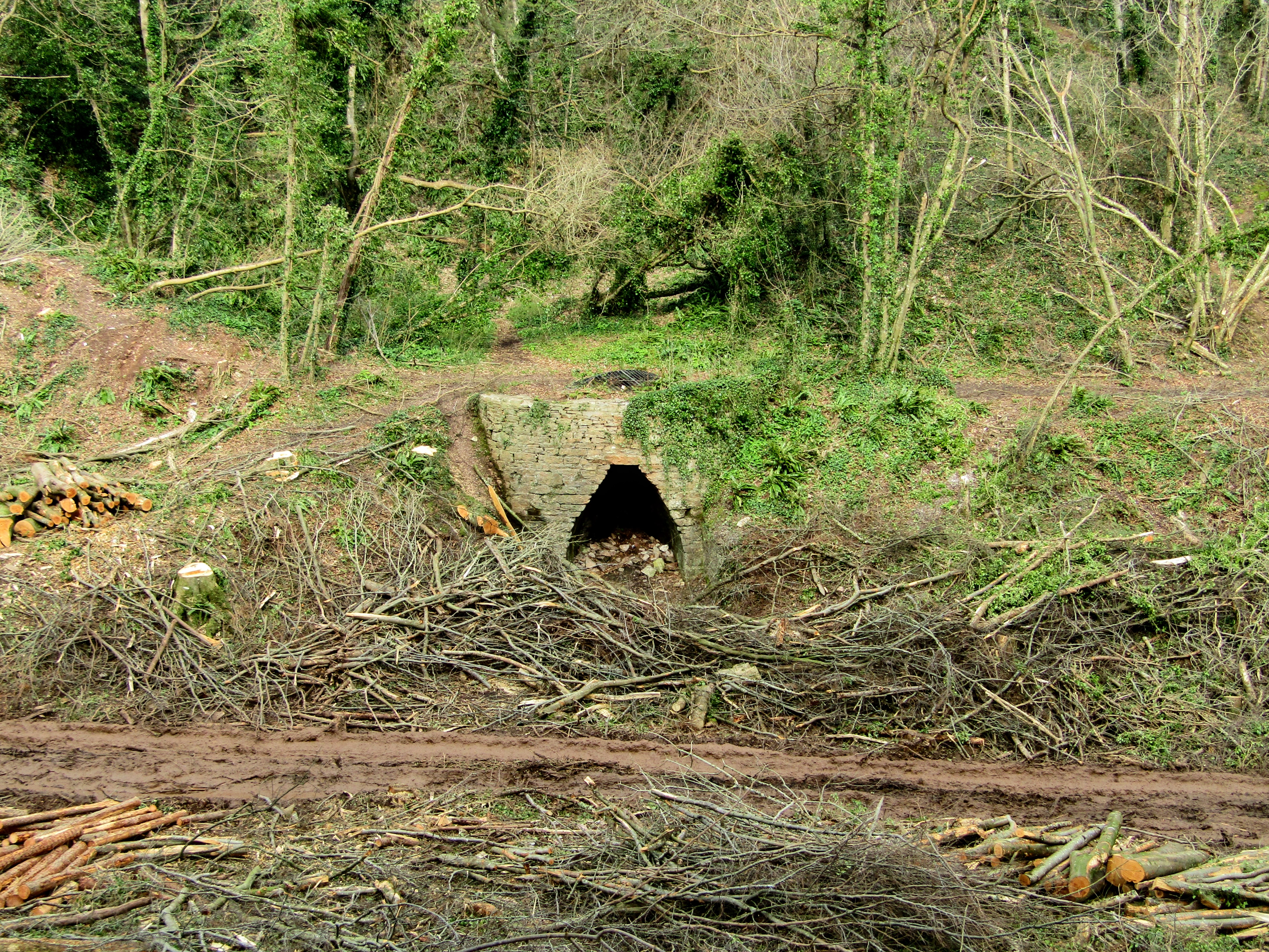 The lime kiln on the northern side of the valley in Churston Woods seen shortly after tree felling.